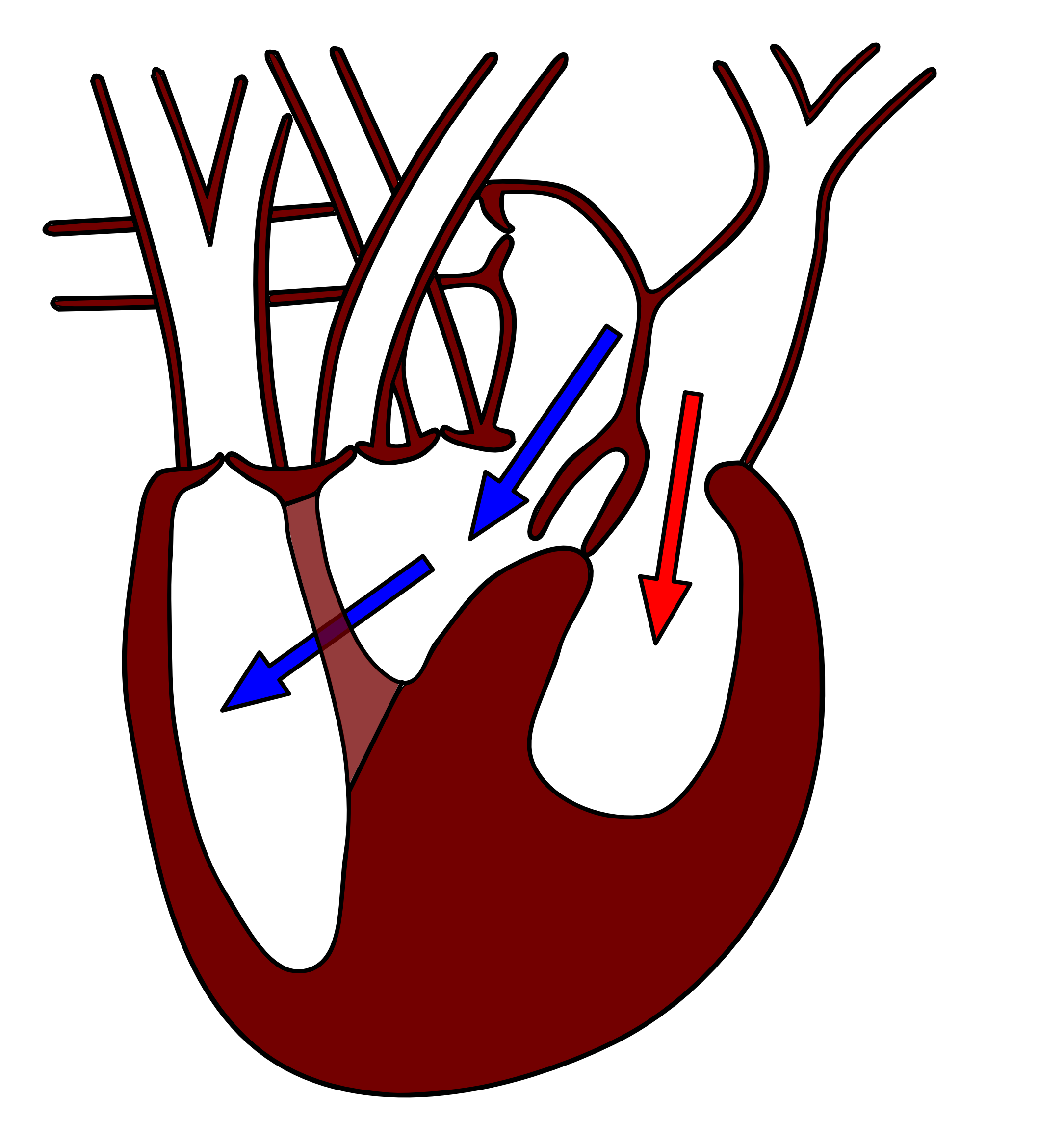 Varanus heart during diastole.